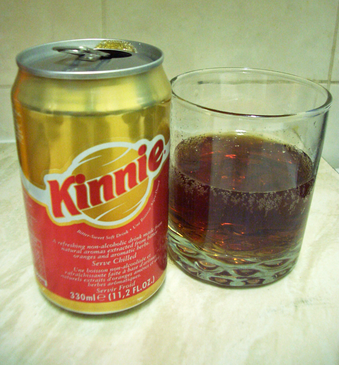 Original Maltese soft drink - Kinnie.